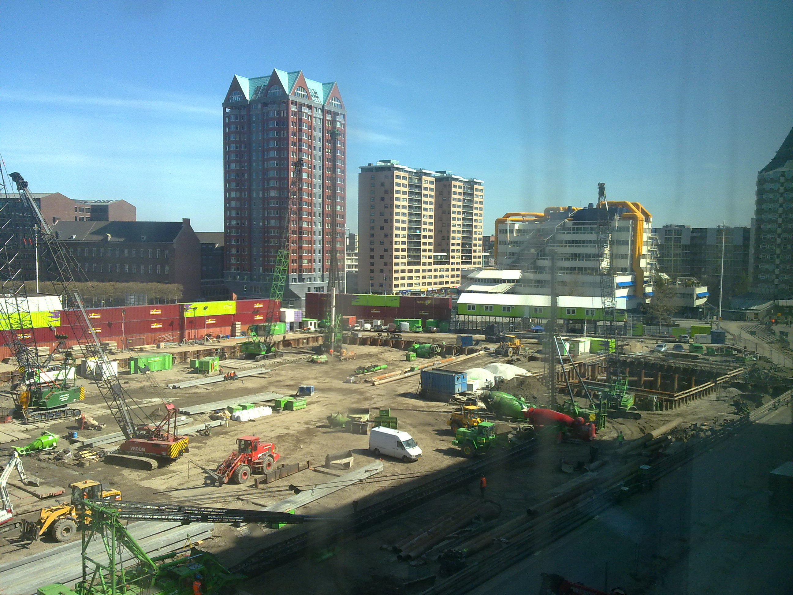 The Markthal in Rotterdam under construction. In view of the central librairy